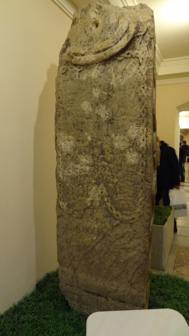 part of stone with letters . on this part of stone cover runick letters .Sentral History Museum, Moscow